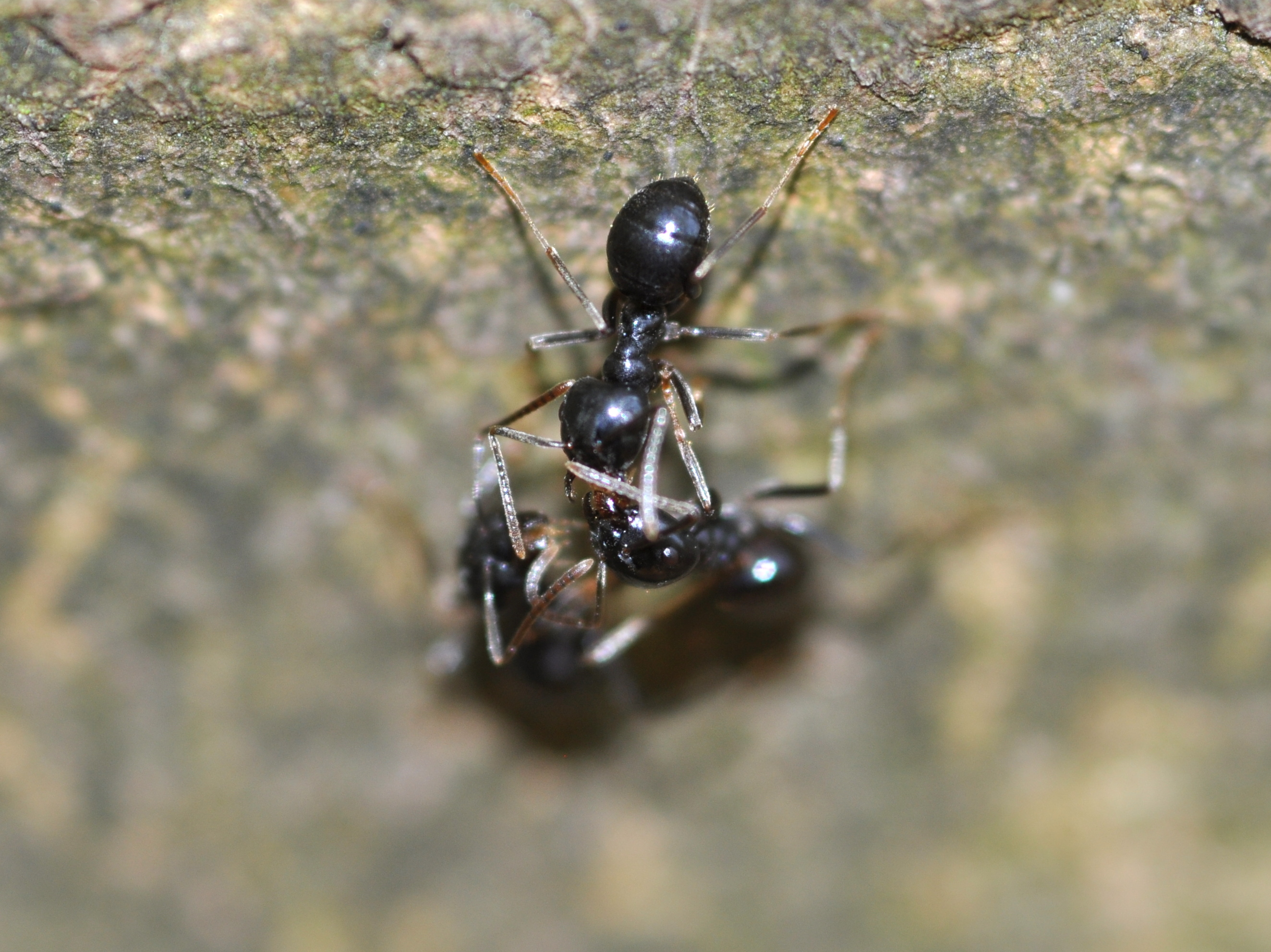 Ant Lasius fuliginosus in Bahrenfeld, Hamburg.